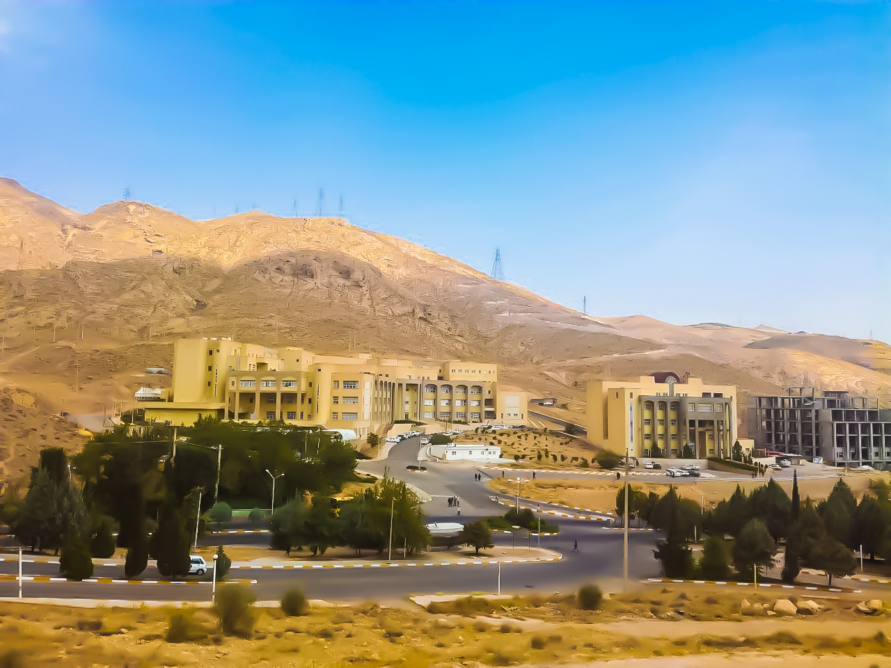 Shiraz University